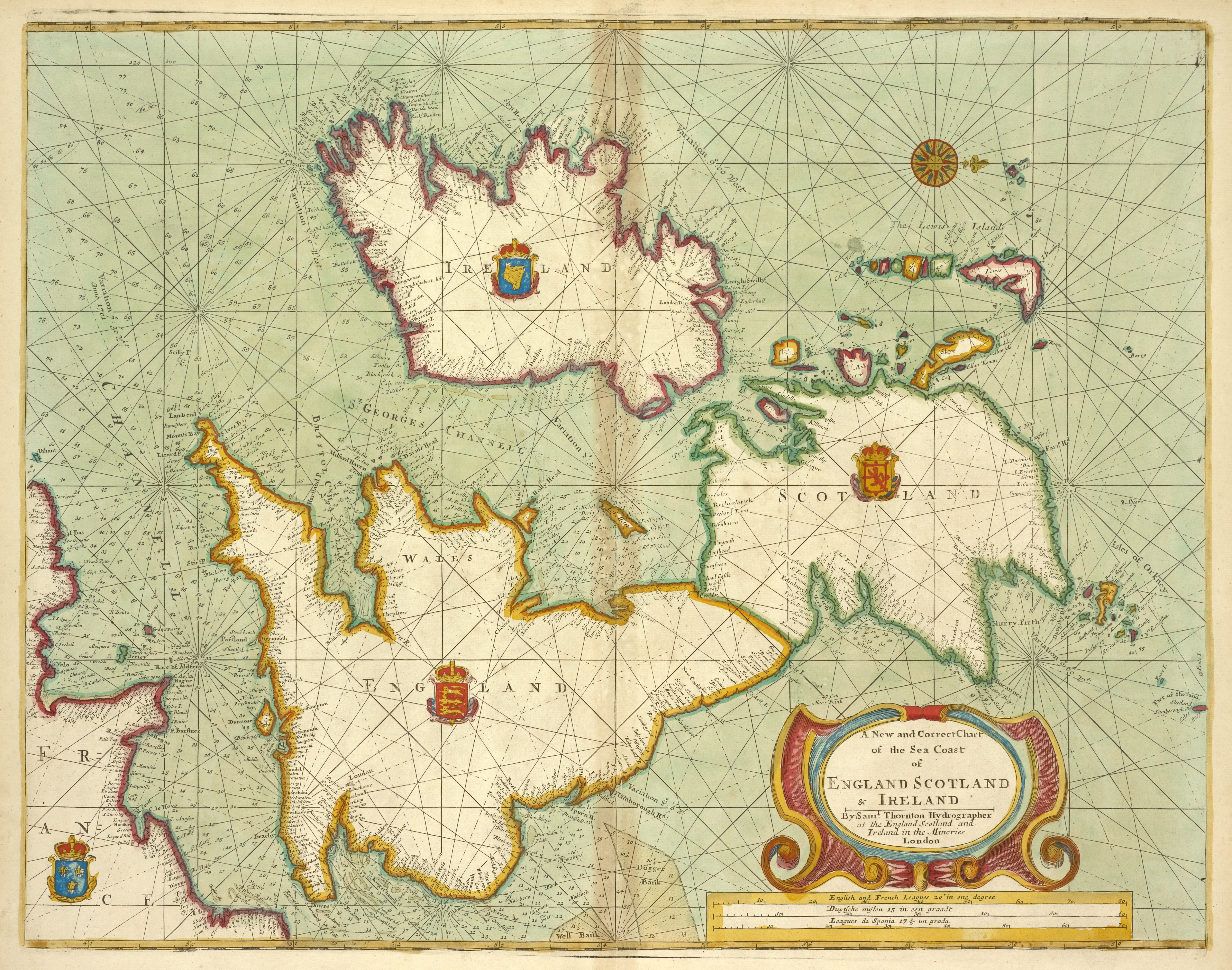 Contains 8 pages of text and 173 double-page large folio charts, colored by a contemporary hand. Citation/Reference: Sabin 95631 Most of the maps bear the imprint of Samuel Thornton, but some were issued by John Thornton, and others. The volumes may be a compilation from several sources, including John Thornton's Atlas maritimus.--cf. Bookseller's description inserted in v. 1; Sabin 95631; and Phillips 2833, 3455.